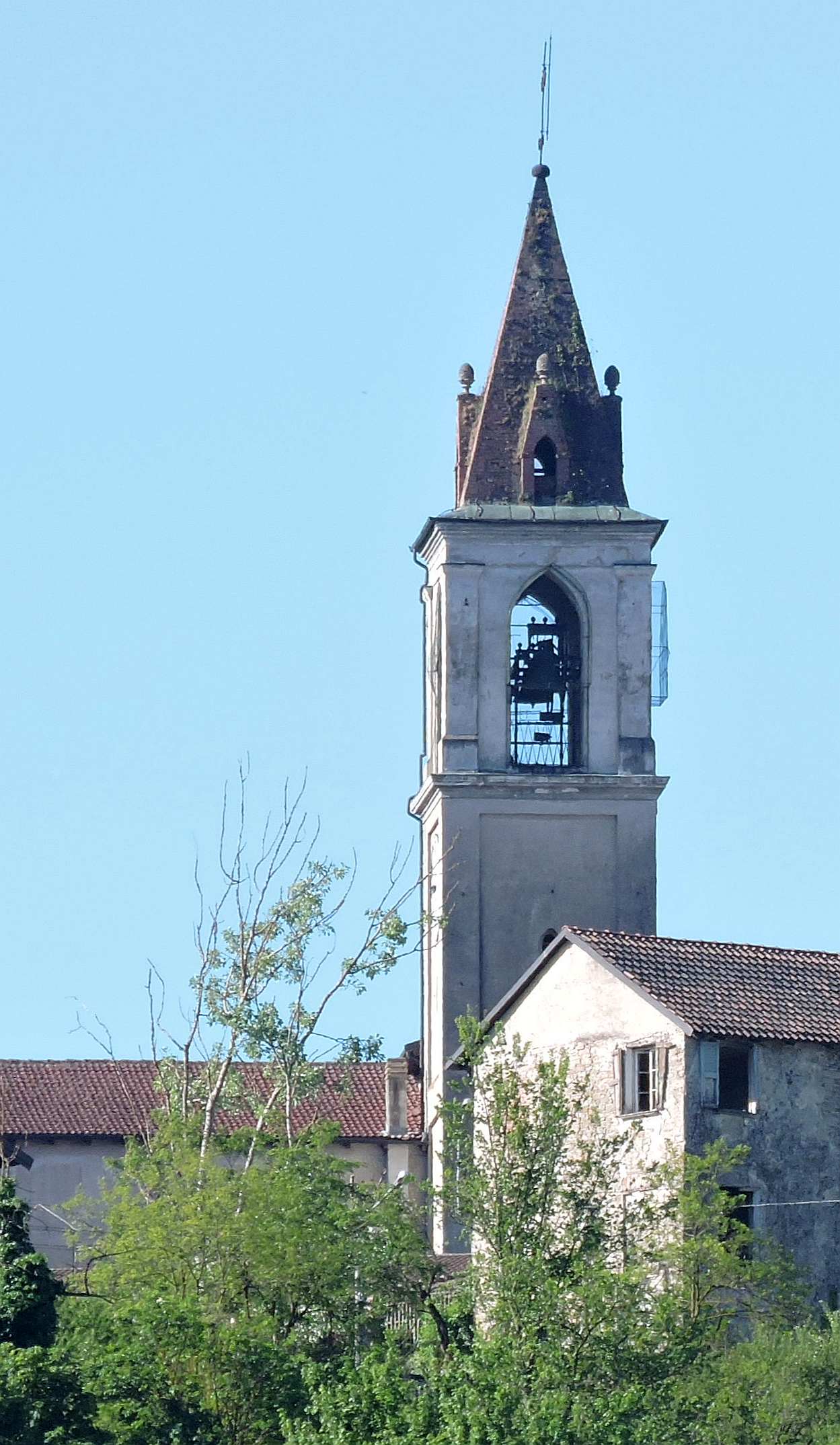 Prasco (AL, Italy): church tower